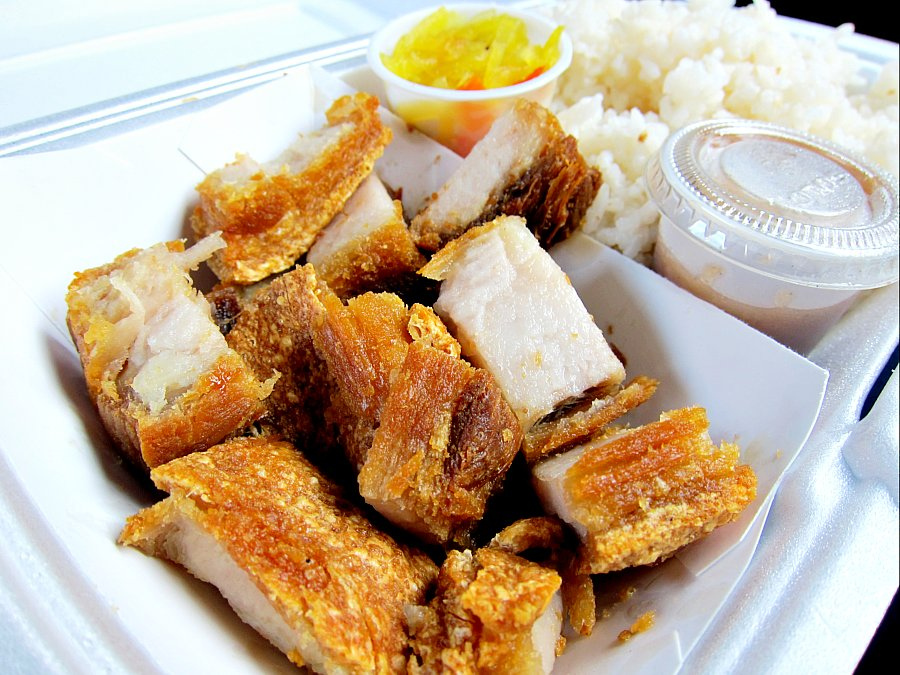 Filipino food from a Filipino Food Truck in Los Angeles, California Image taken on January 17, 2012